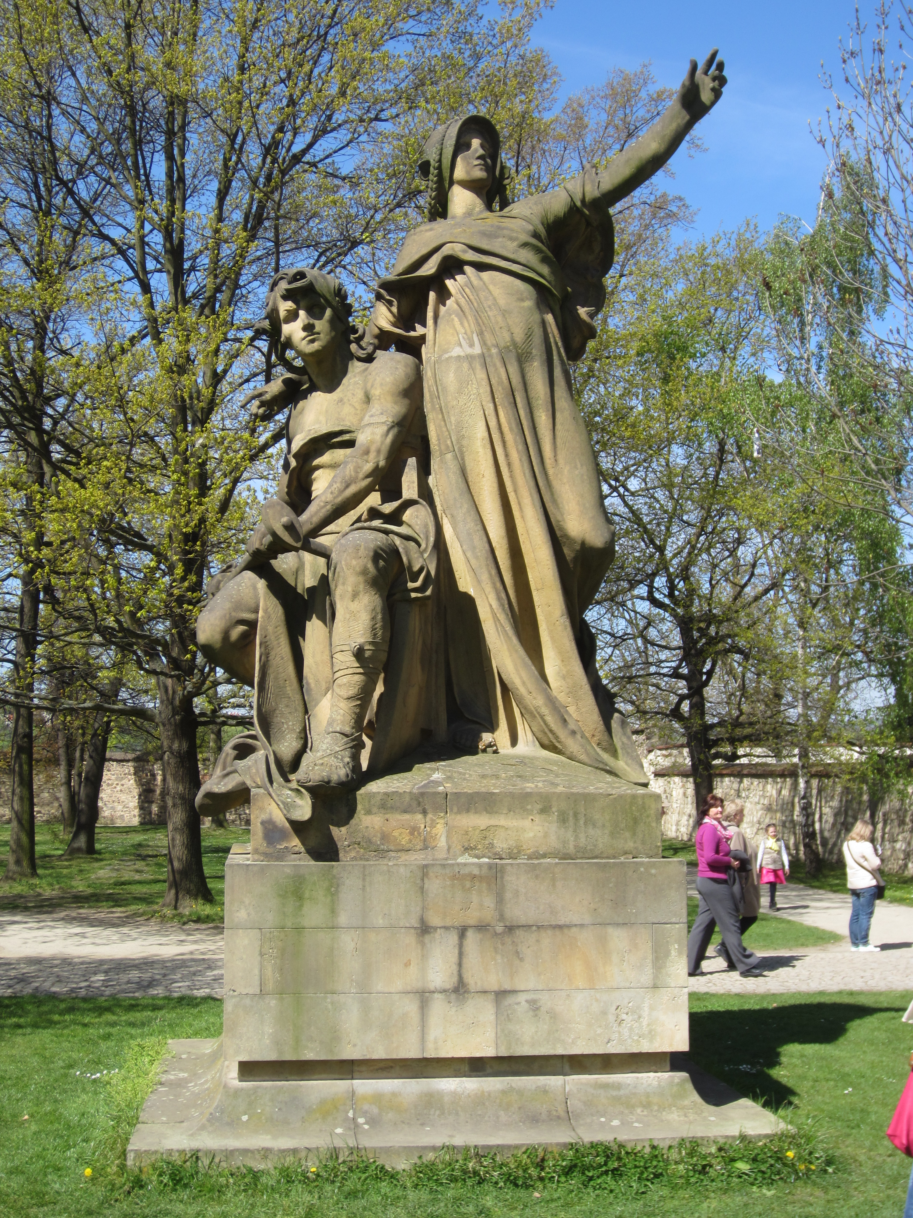 Prague, Czech Republic, April 2016